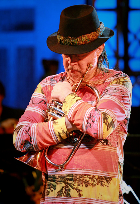 Chuck Mangione - Cinemagic 2006 - Plock / Poland